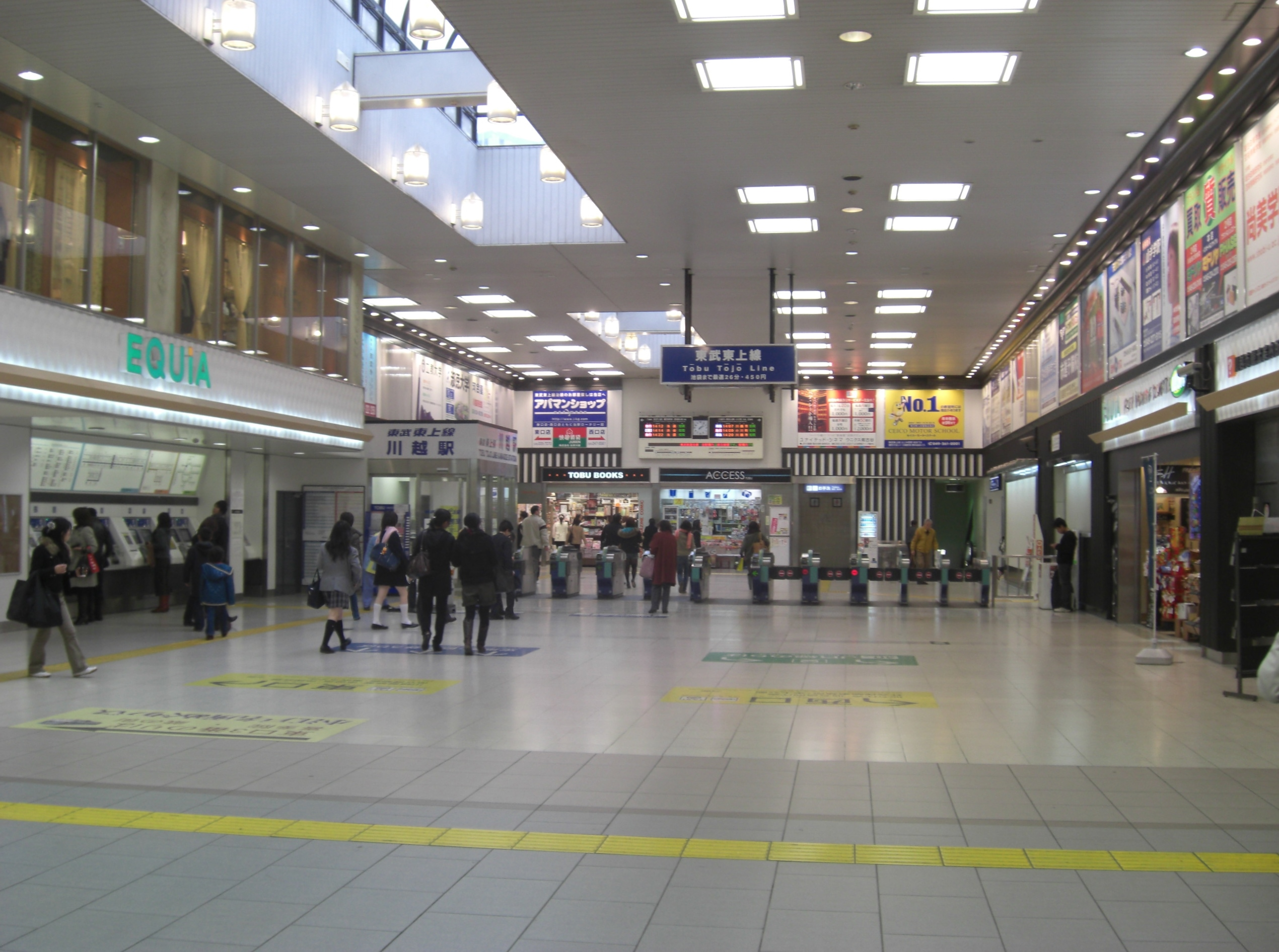 The ticket barriers to the Tobu tracks at Kawagoe Station in Saitama, Japan